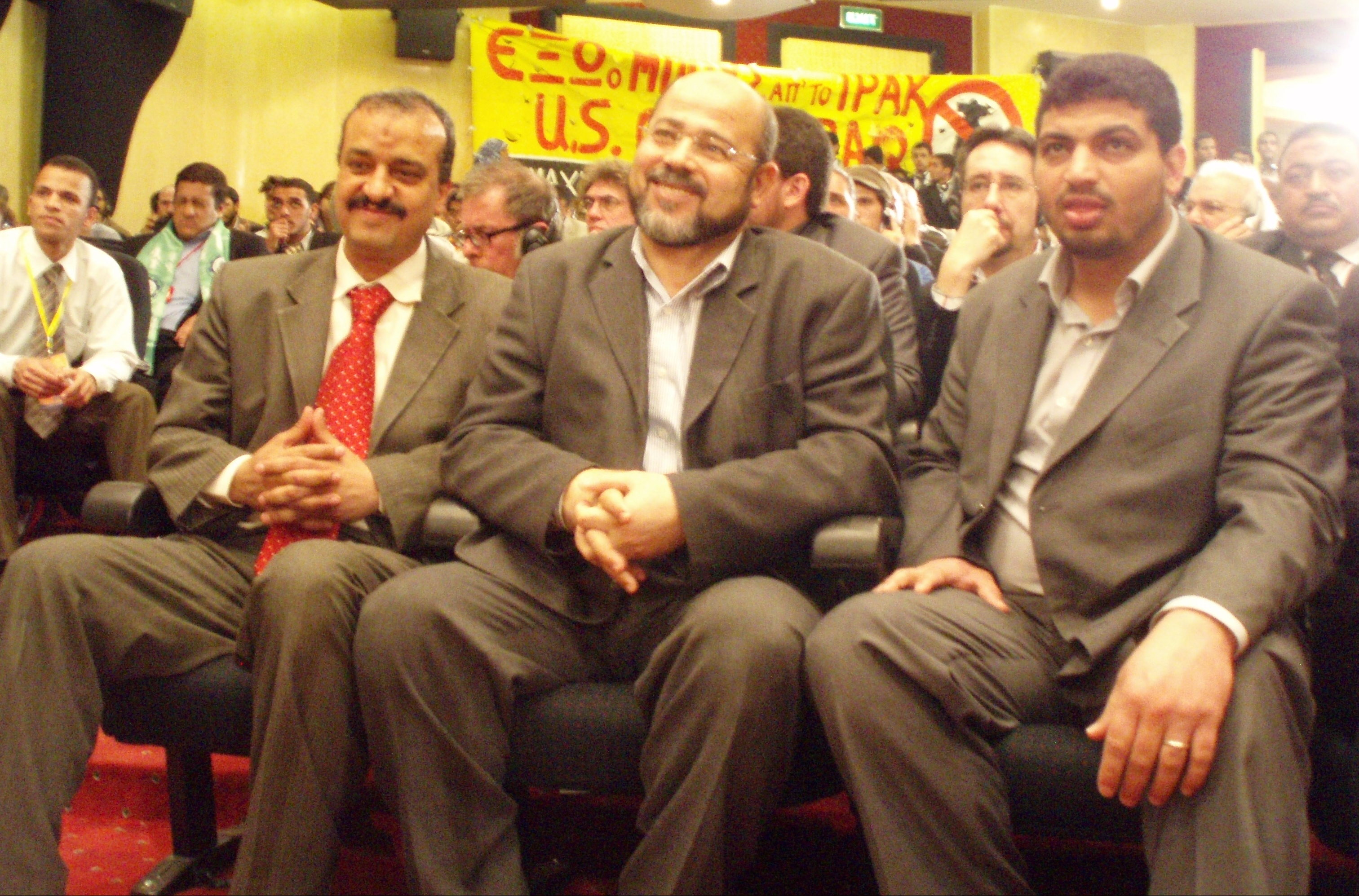 Cairo's 5th Anti-War Conference, held at the Press Syndicate.